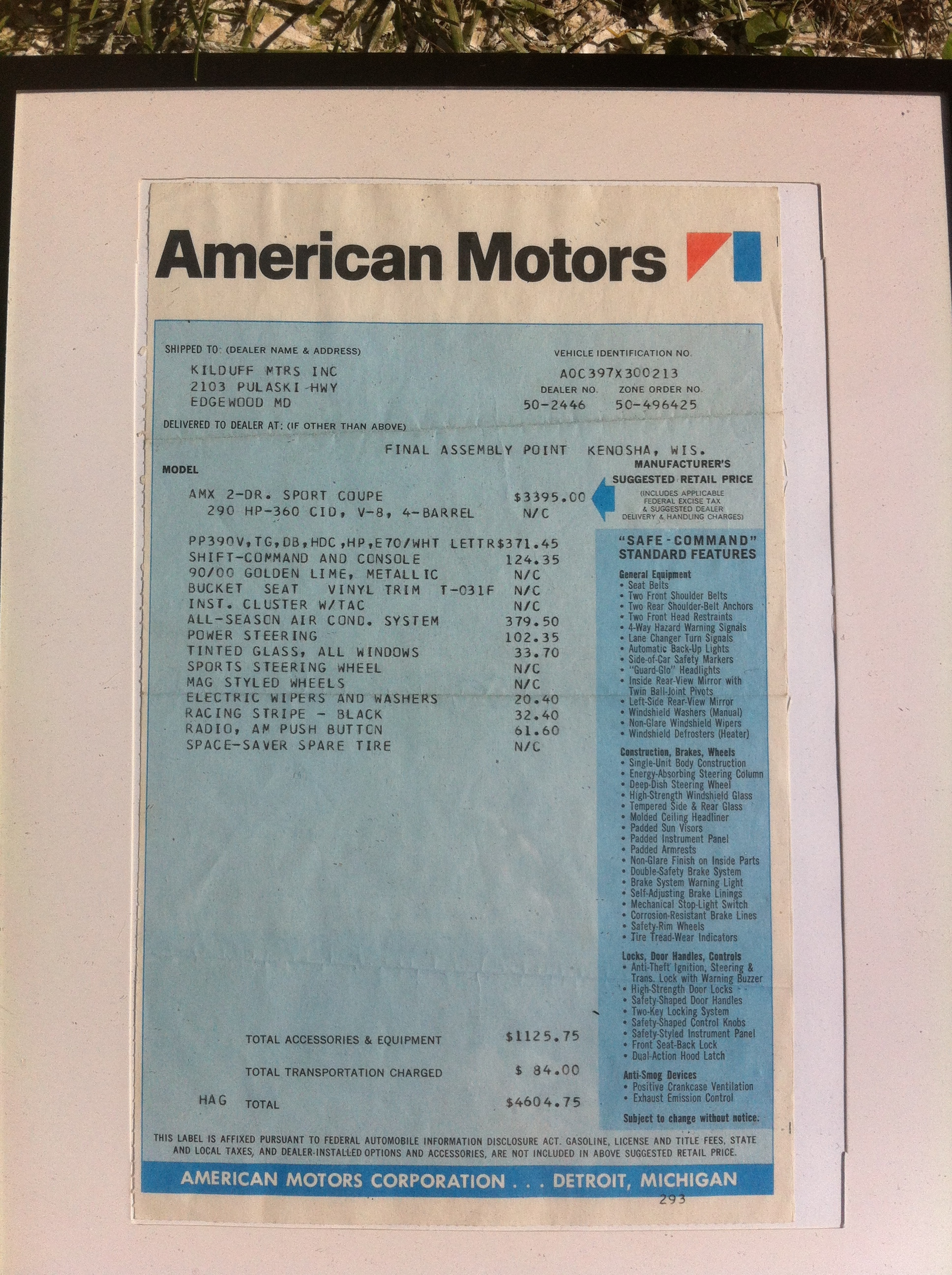 The Monroney sticker (or window sticker) showing factory equipment, options, and prices of a 1970 AMC AMX. Factory golden lime paint and with the 390 Go Package. Picture taken at the 2014 Rockville Antique and Classic Car Show held at the Rockville Civic Center Park in Maryland.